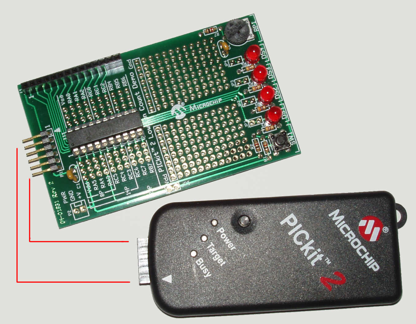 Microchip programmer 'PICkit2' (alternate name 'DV164120') for PIC microcontroller